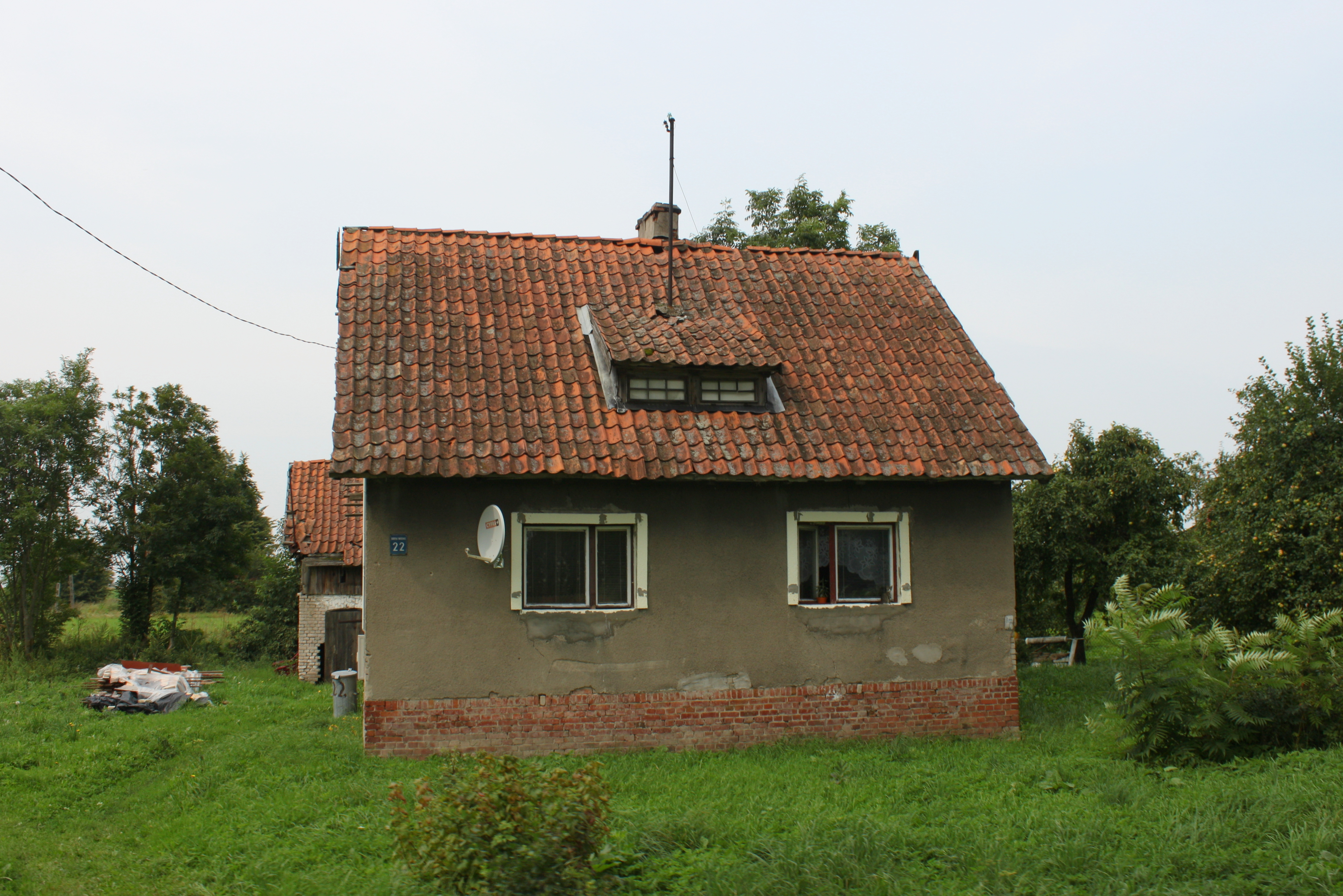 House in Borki Wielkie.